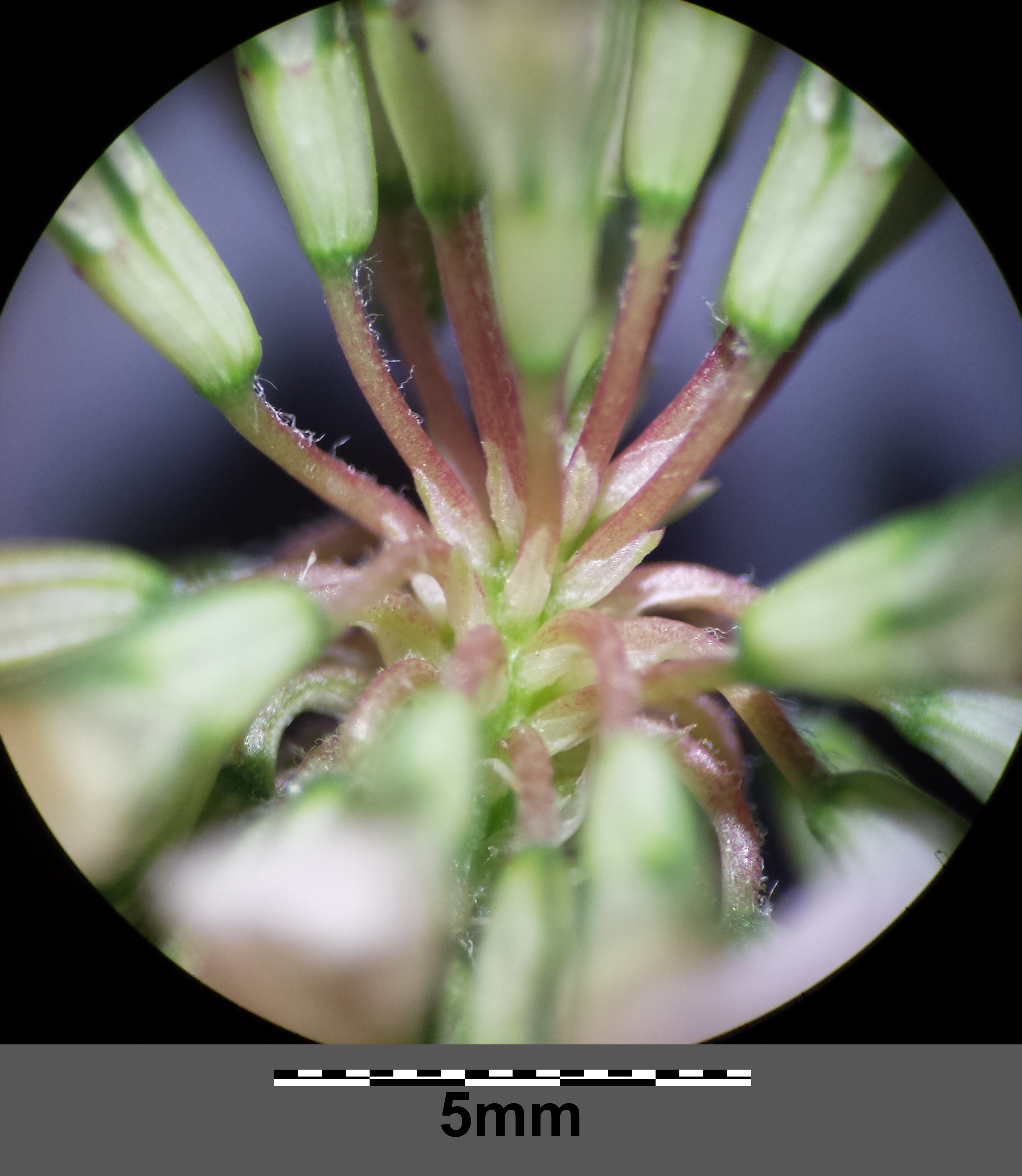 Pedicels with bracts Taxonym: Trifolium repens (subsp. repens) ss Fischer et al. EfÖLS 2008 ISBN 978-3-85474-187-9 Location: Neue Donau, Vienna-Floridsdorf - ca. 160 m a.s.l. Habitat: dry meadows